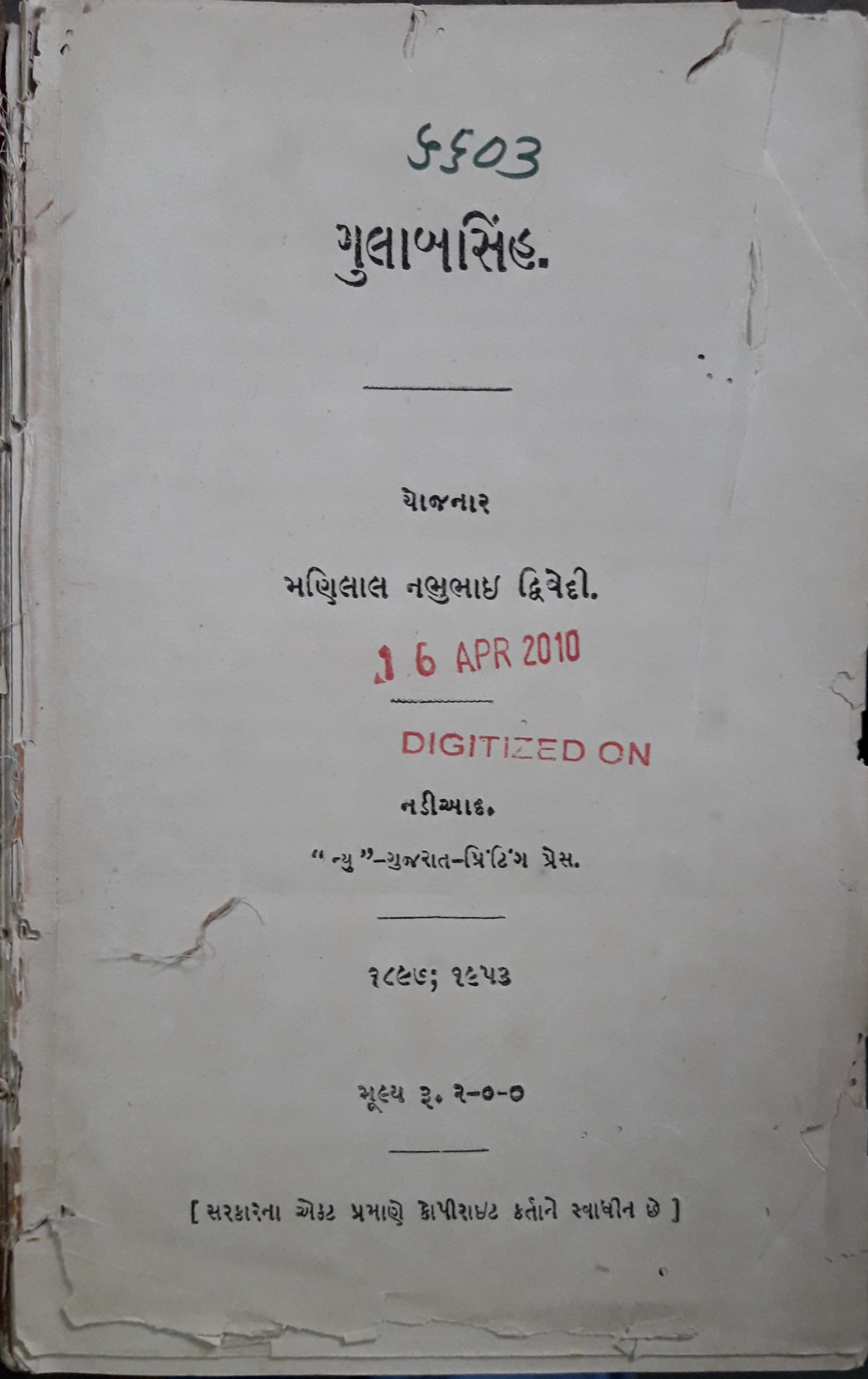 Title page of first edition of 'Gulabsinh' (1897), a Gujarati novel by Manilal Nabhubhai Dwivedi (1858–1898)